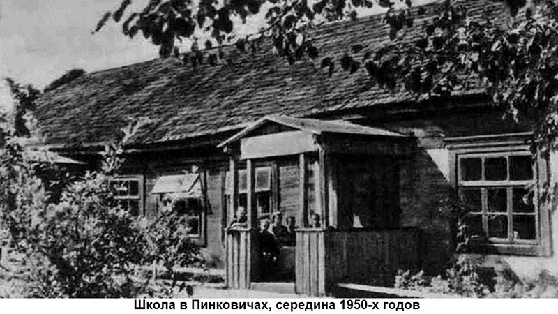 pinkovichi school